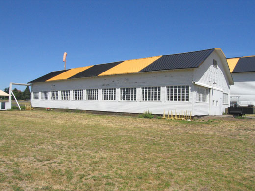 Pearson Hangar at Vancouver National Historic Reserve, Fort Vancouver National Historic Site, Washington, USA